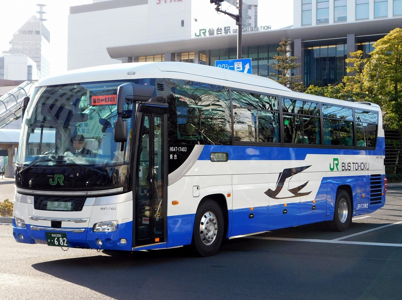 JR bus Tohoku Hino S'elega (2RG-RU1ESDA)highwaybus "Sendai-AizuWakamatsu"